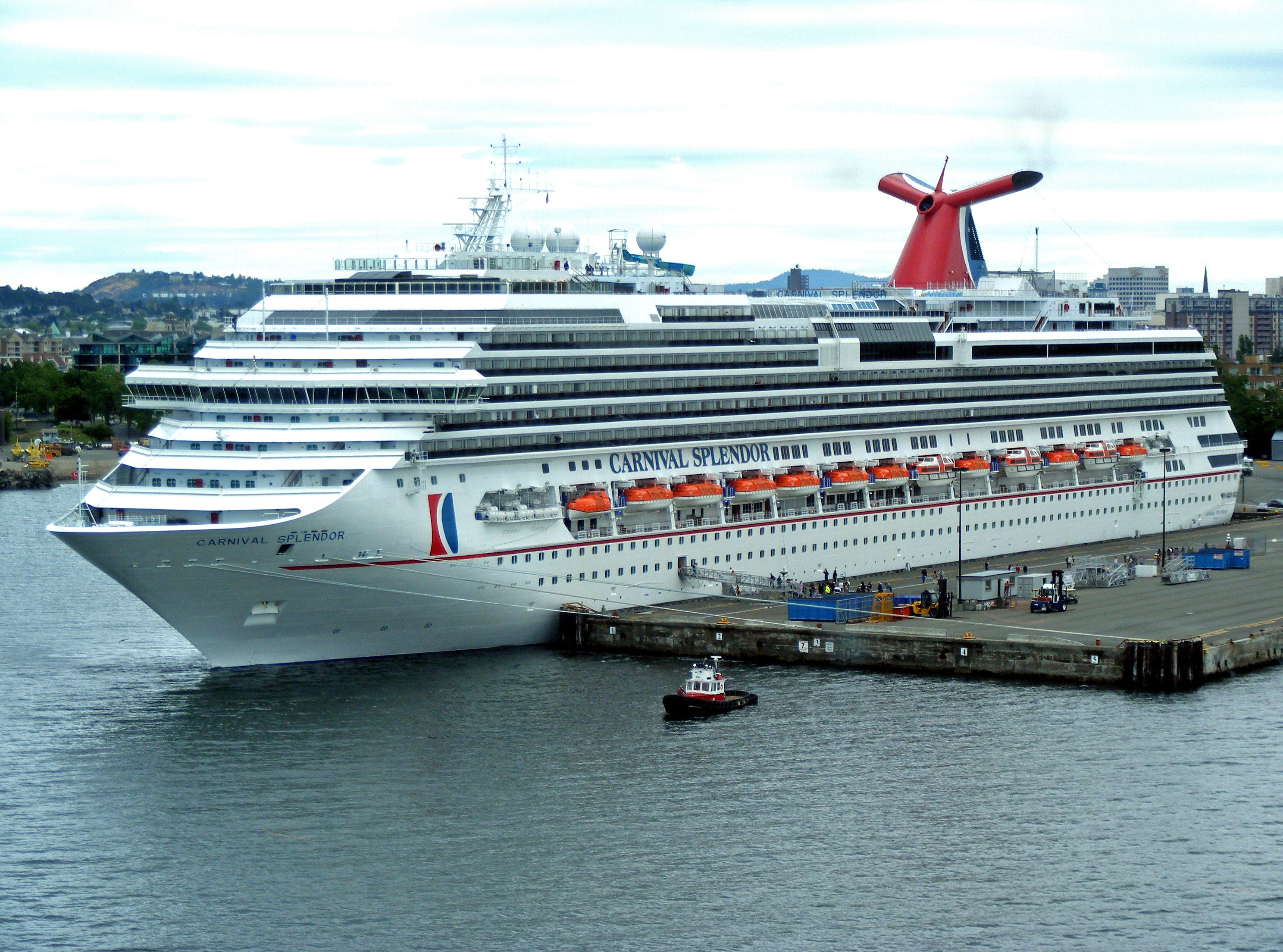 Carnival Splendor.